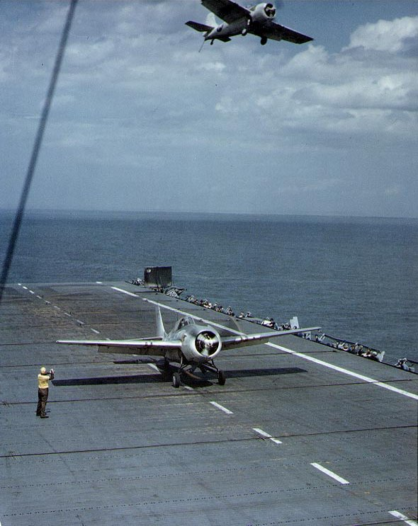 FM-2 "Wildcat" fighter prepares to take off from USS Charger (CVE-30) during training operations in the Chesapeake Bay area, 8 May 1944. Another FM-2 is passing overhead with its tail hook down, apparently having received a "wave-off" due to the carrier's fouled flight deck. Note the light Atlantic area paint schemes worn by these planes.